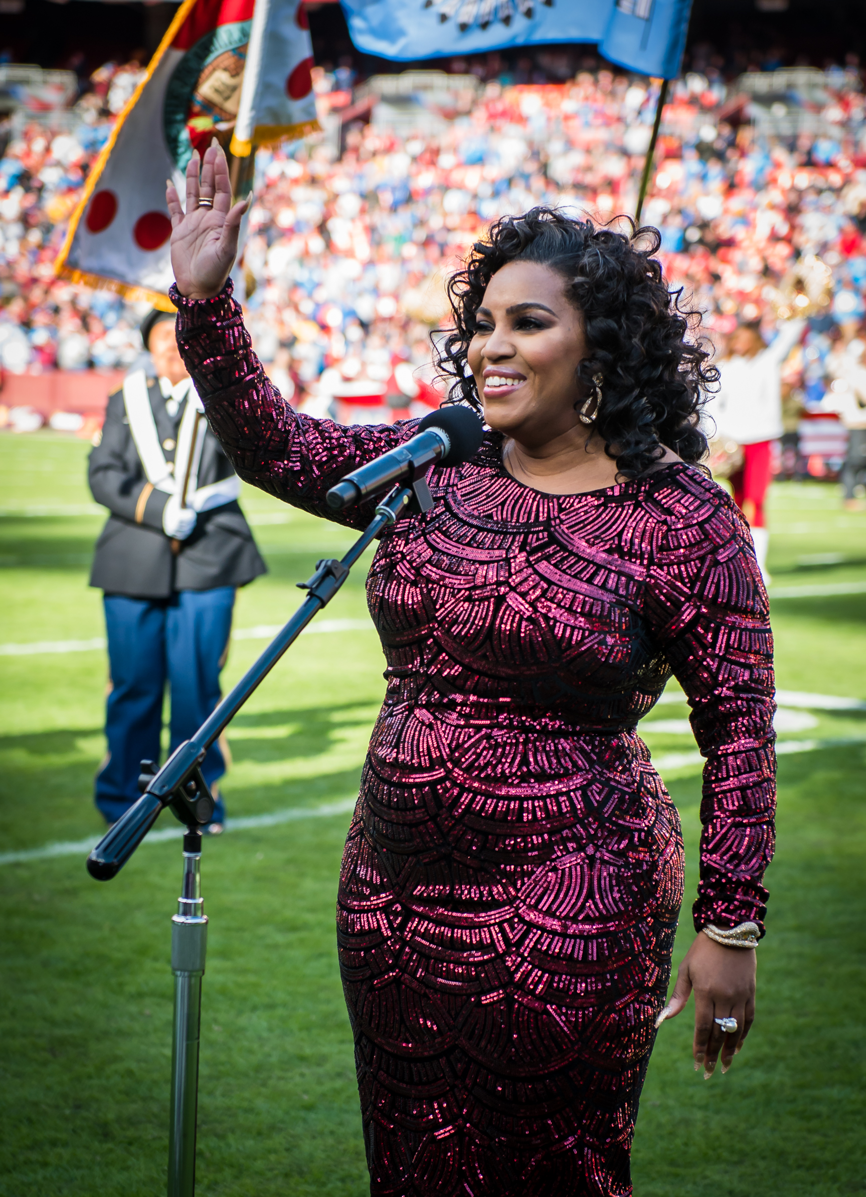 Mary Millben - November 24 2019